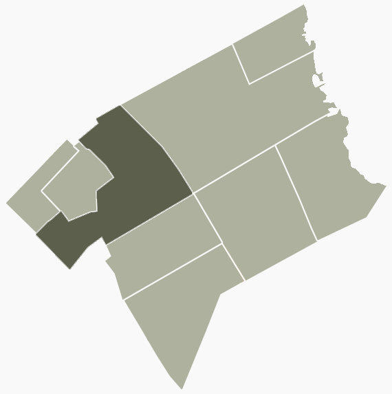 Map of the Vicente López's neighborhood, Munro.